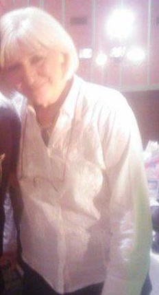 Picture of Banu Avar.